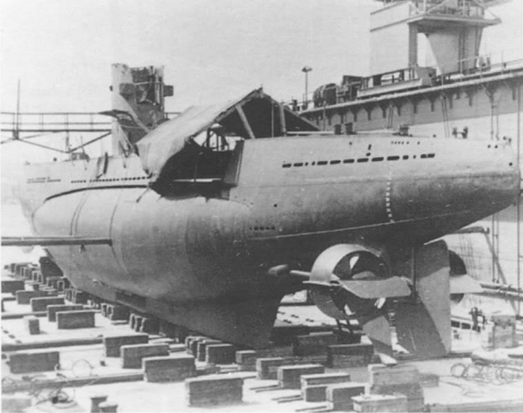 German Type IIB submarine U-18 being re-assembled at the Galați shipyard.jpg